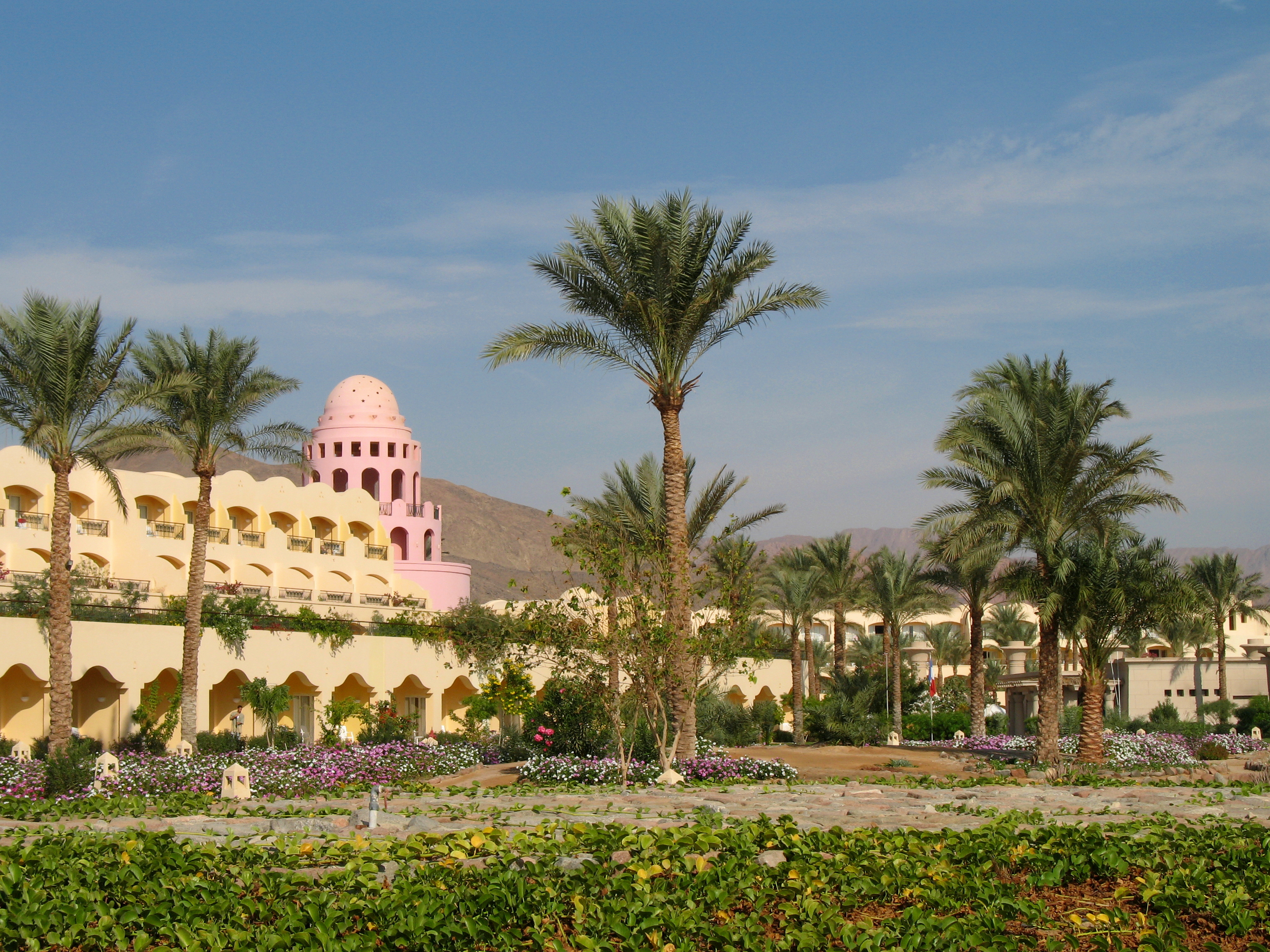 Taba Heights (Sinai, Egypt): Sofitel Hotel